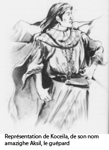 Amazigh King